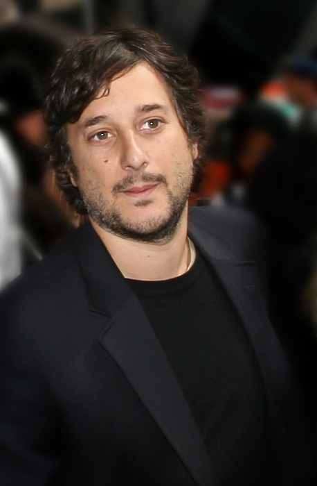 Harmony Korine at the 2007 Toronto International Film Festival